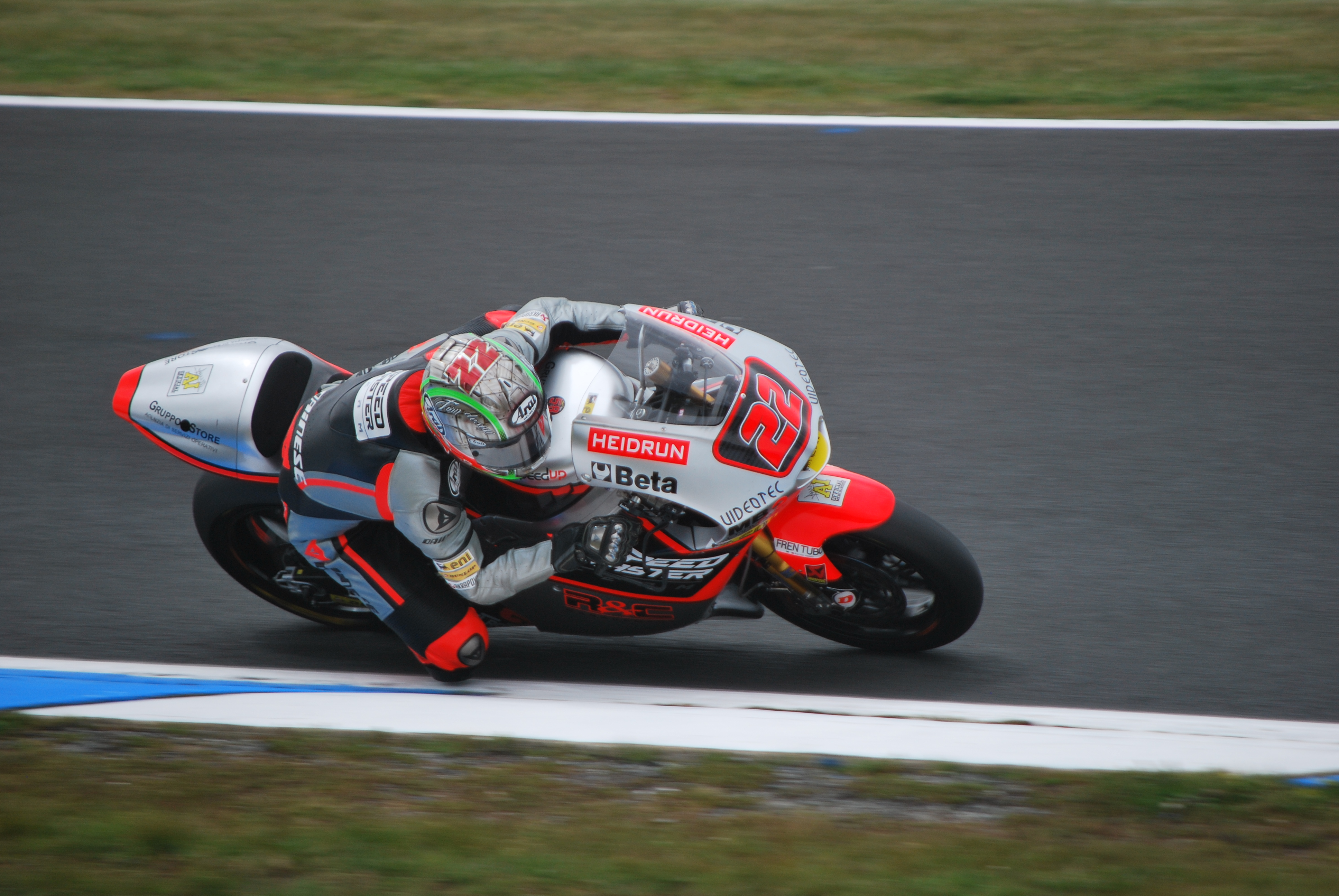 2012 Australian motorcycle Grand Prix – Moto2 – #22 Alessandro Andreozzi – Speed Up – S/Master Speed Up